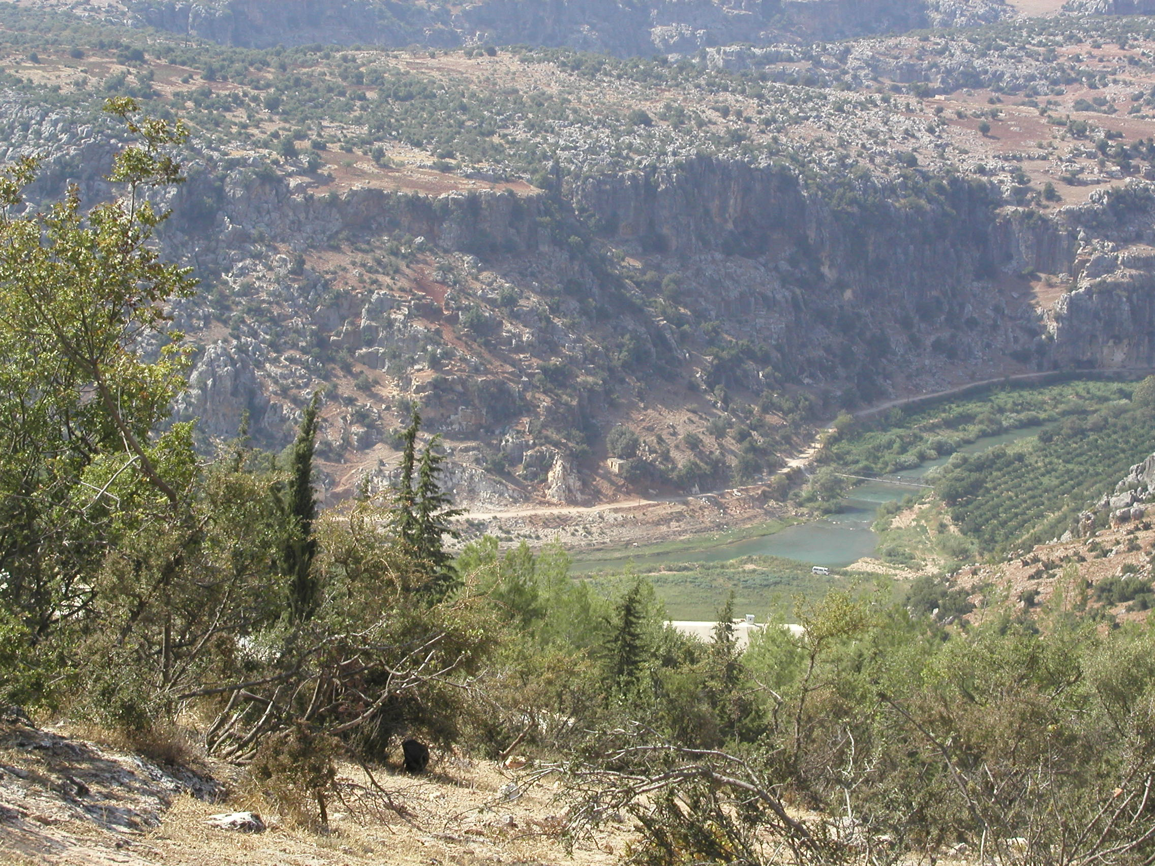 Orontes River near Ain Azzarqa, Idlib Governorate, Syria.